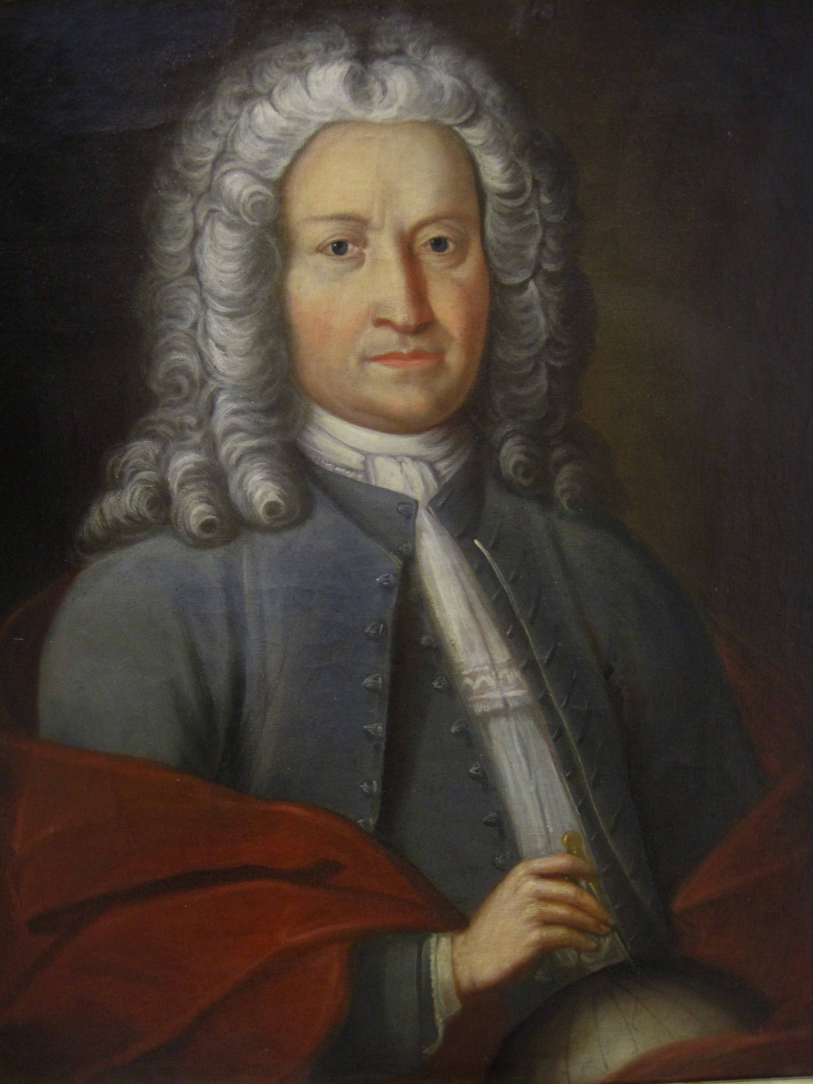 Conrad Quensel (1676-1732), professor of mathematics at Pärnu 1704-10 and of astronomy at Lund University 1712-32.